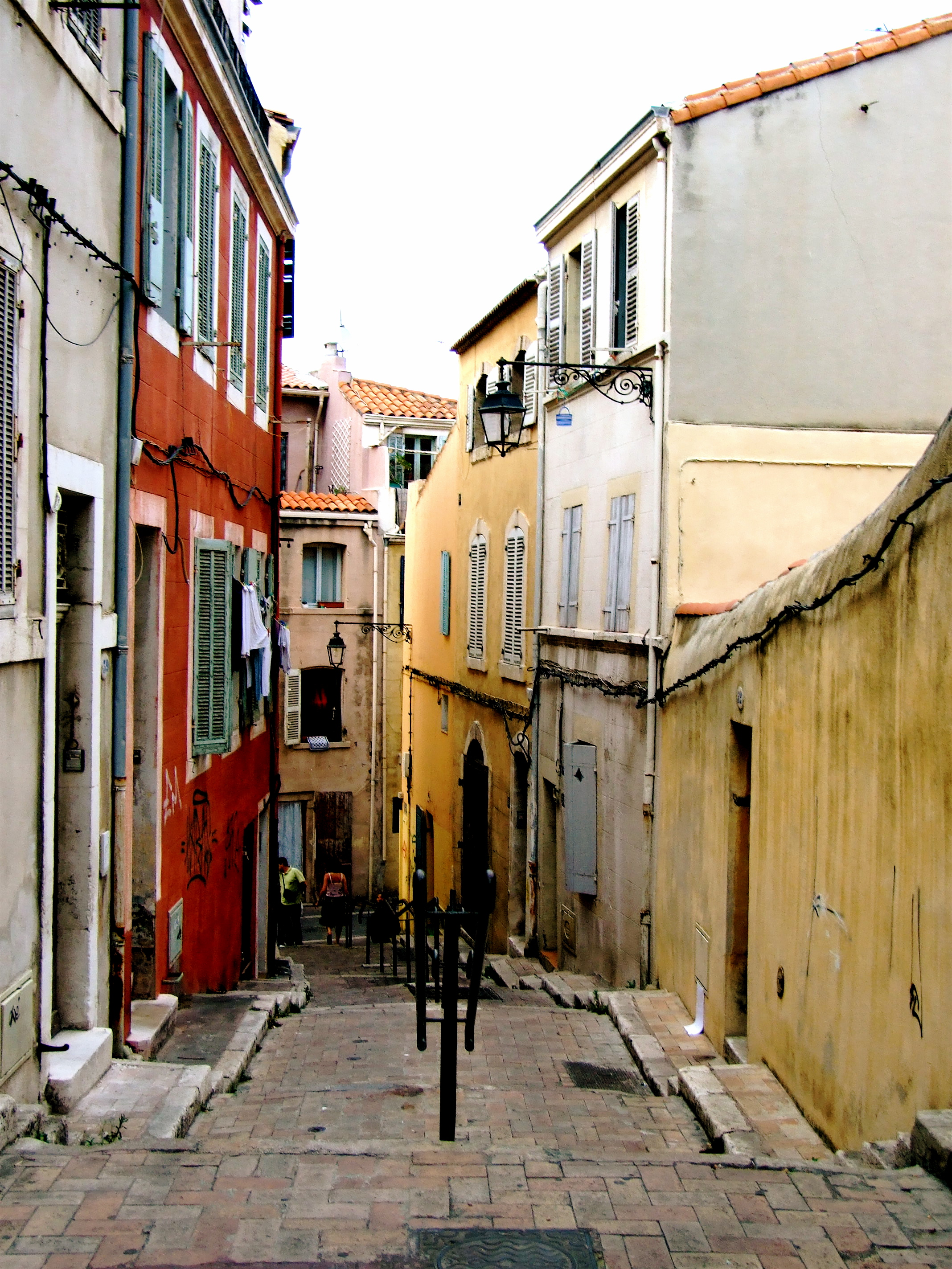 Image from flickr site of frank.cuny licensed under a creative media Attribution-ShareAlike License